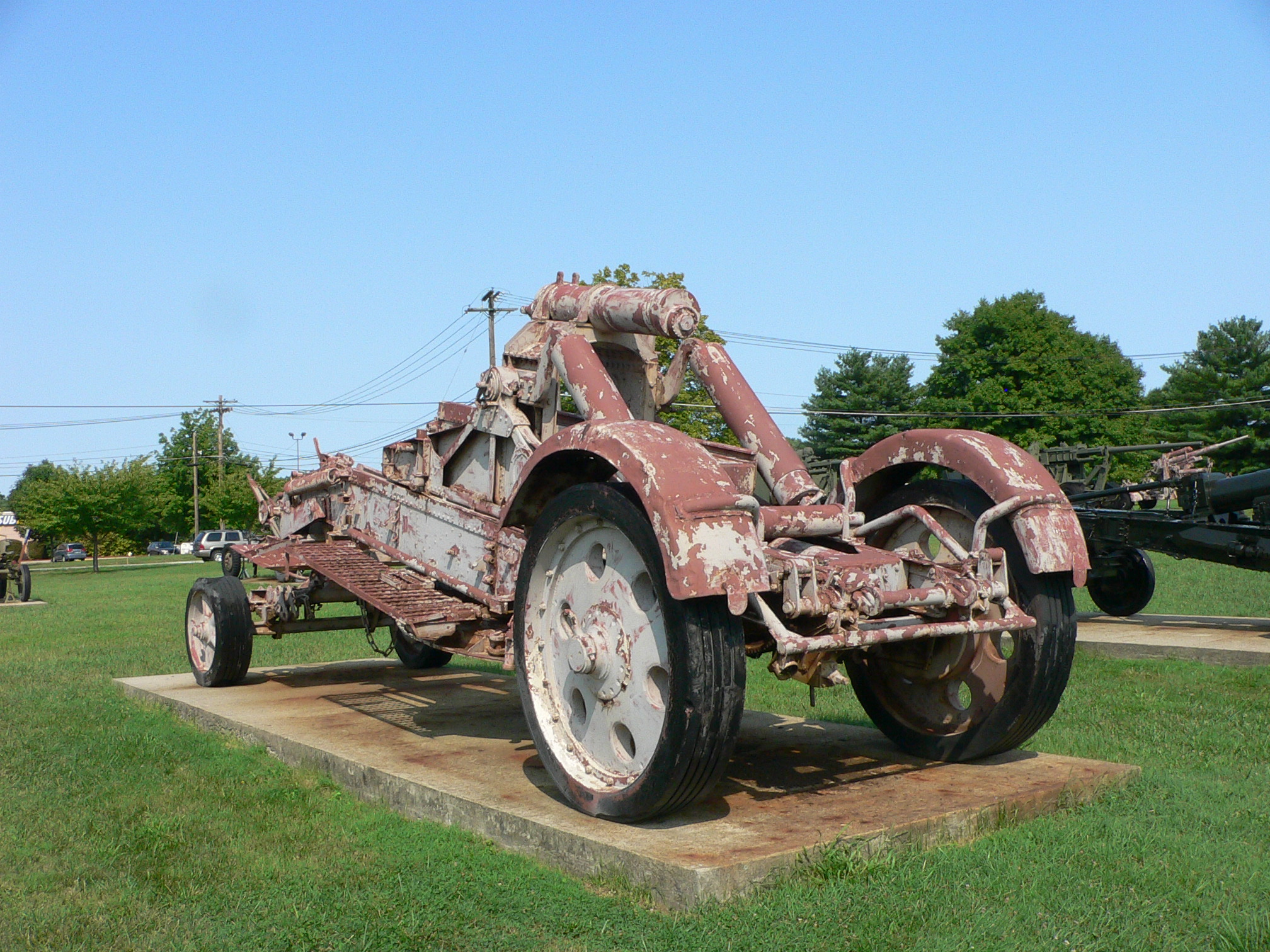 Picture taken by myself, Mark Pellegrini, at the United States Army Ordnance Museum (Aberdeen Proving Ground, MD) on August 14, 2007.